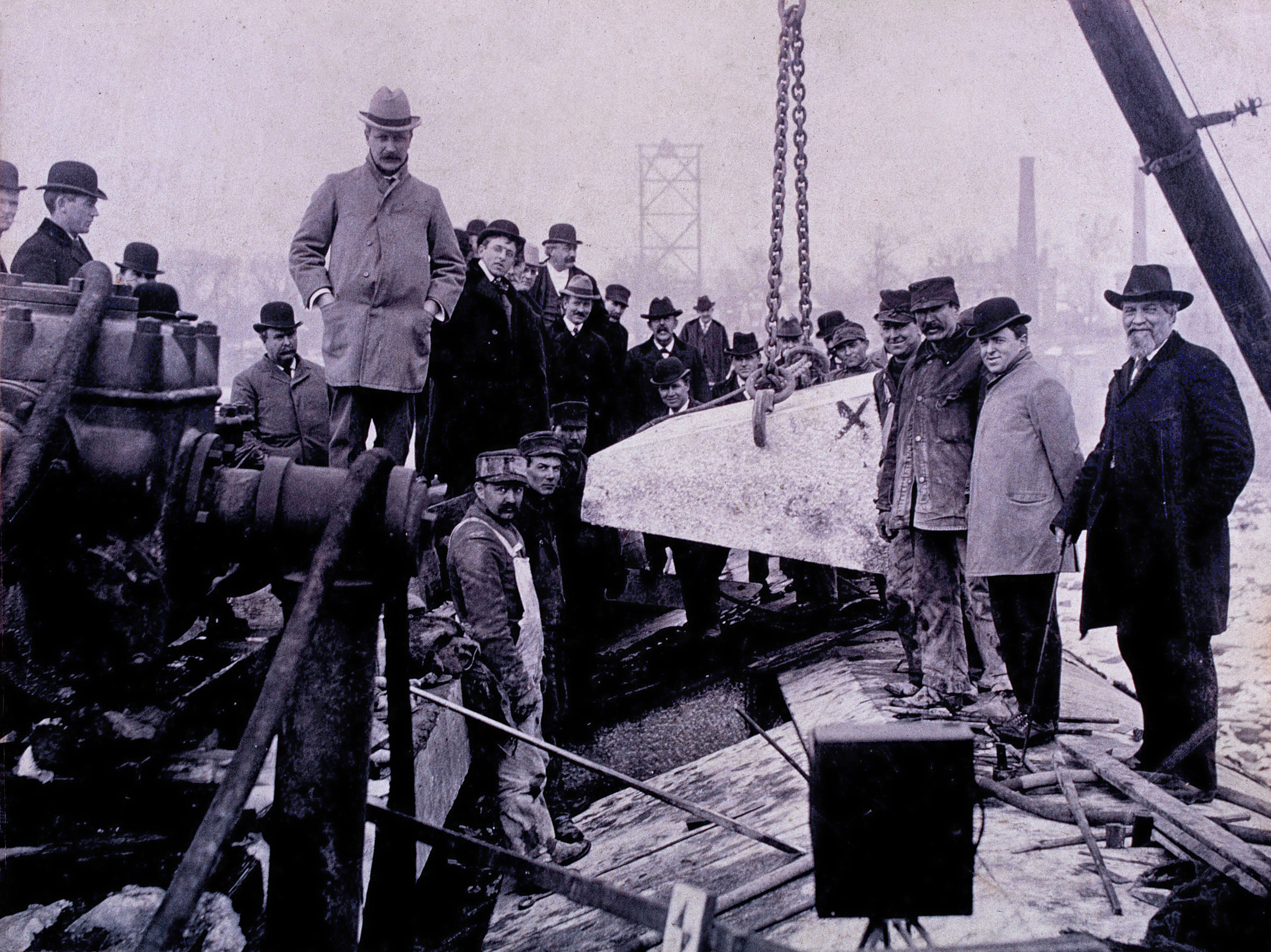 Workers and city and Holyoke Water Power Company officials observe the laying of the last stone in the third Holyoke Dam, at 3 o'clock in the afternoon of January 5, 1900. The man in the center left in the lighter jacket and tan Homburg hat is Arthur Chapin, the last of 6 mayors to preside over the city during the dam's construction. The identity of the bearded man at the far right with a cane is unknown, but likely one of the members of the HWP Company's board of directors.